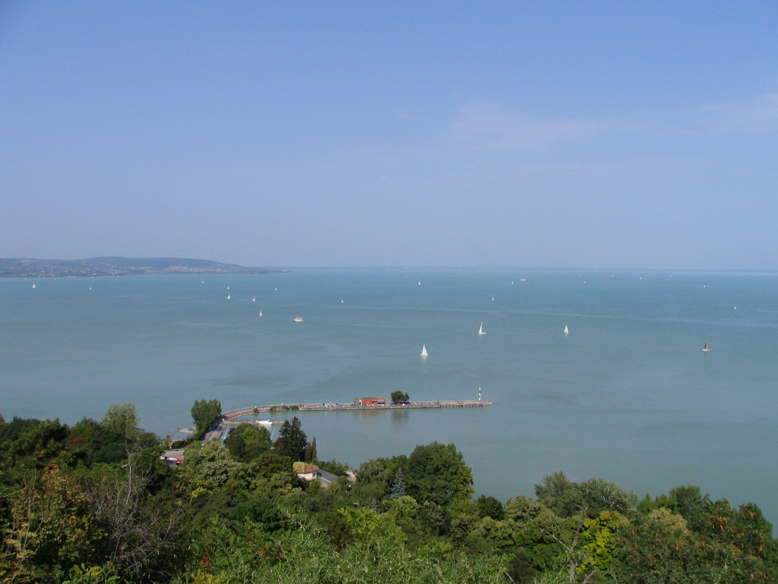 View of Balaton from Tihany